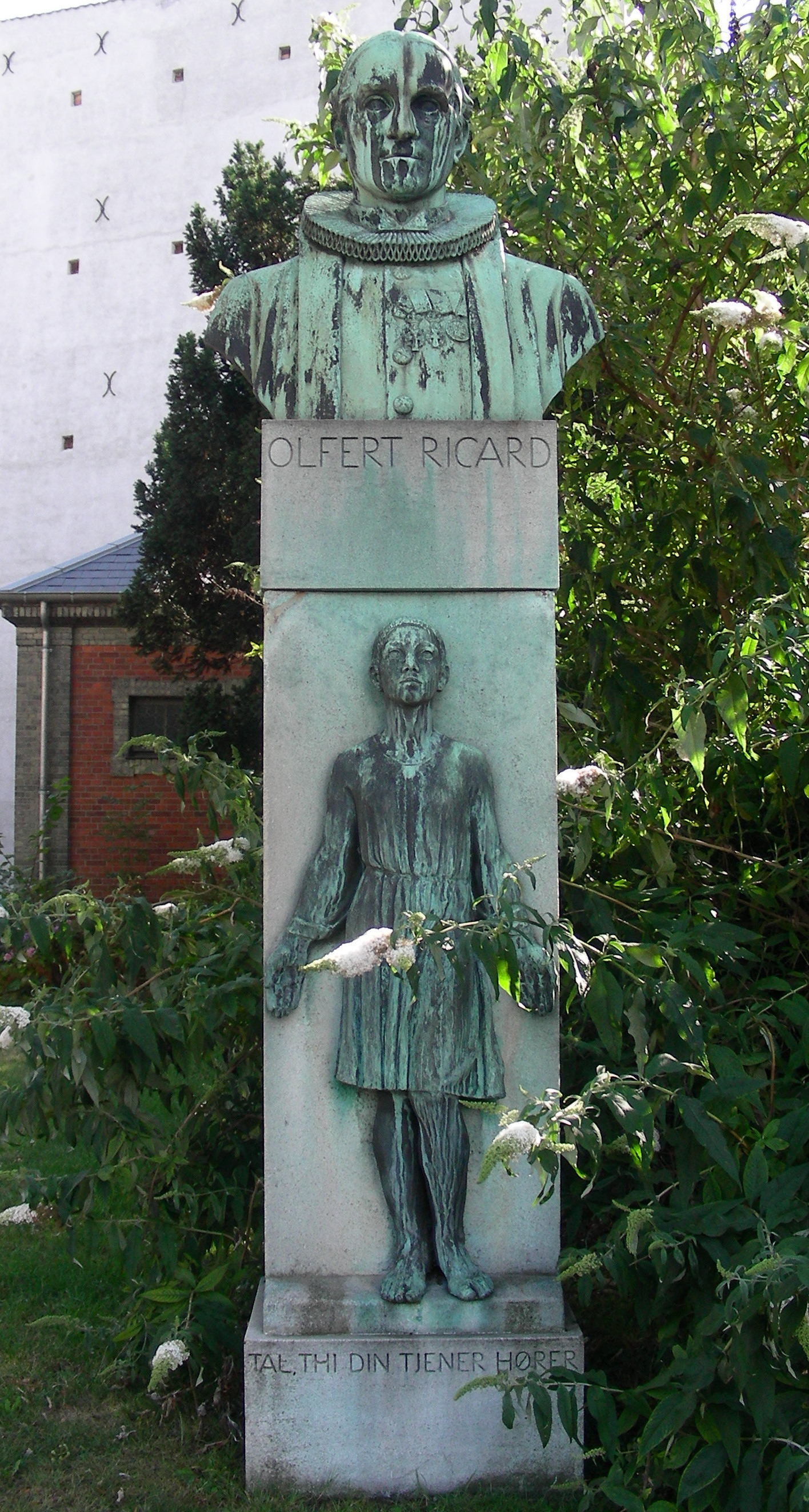 Garnisons Kirke, Copenhagen, Denmark. Memorial for Olfert Ricard, the church's most notorious priest.